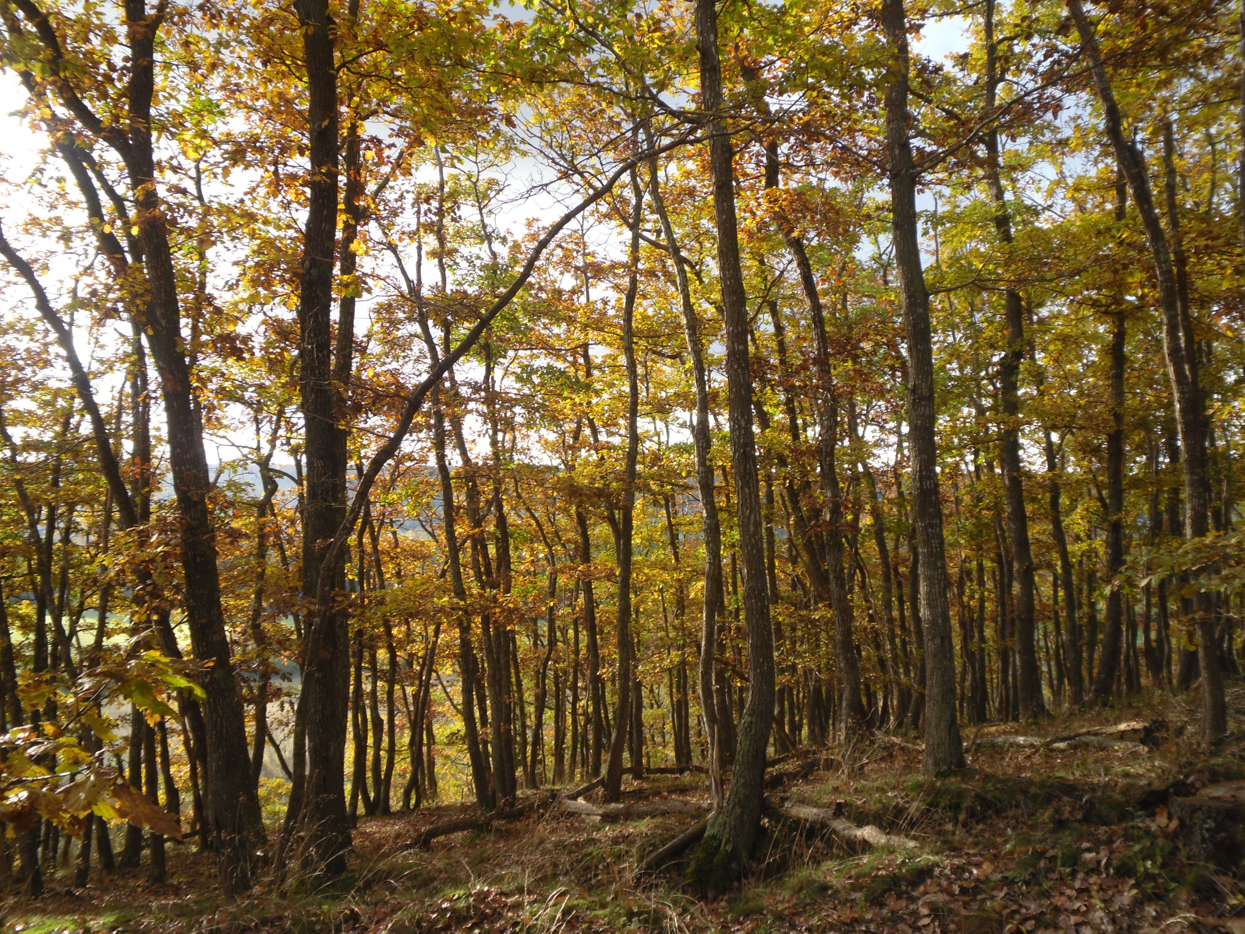 The forest of Dreux (France) in autumn, in the commune of Sorel-Moussel (Eure-et-Loir). A view near the edge of the Eure valley, between Saint-Georges-Motel and Marcilly-sur-Eure (Eure).